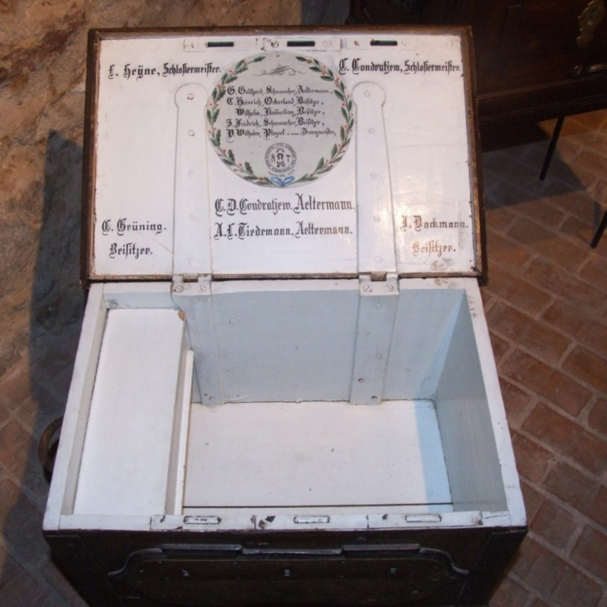 Craft's ark of the year 1866 from the Ventspils castle